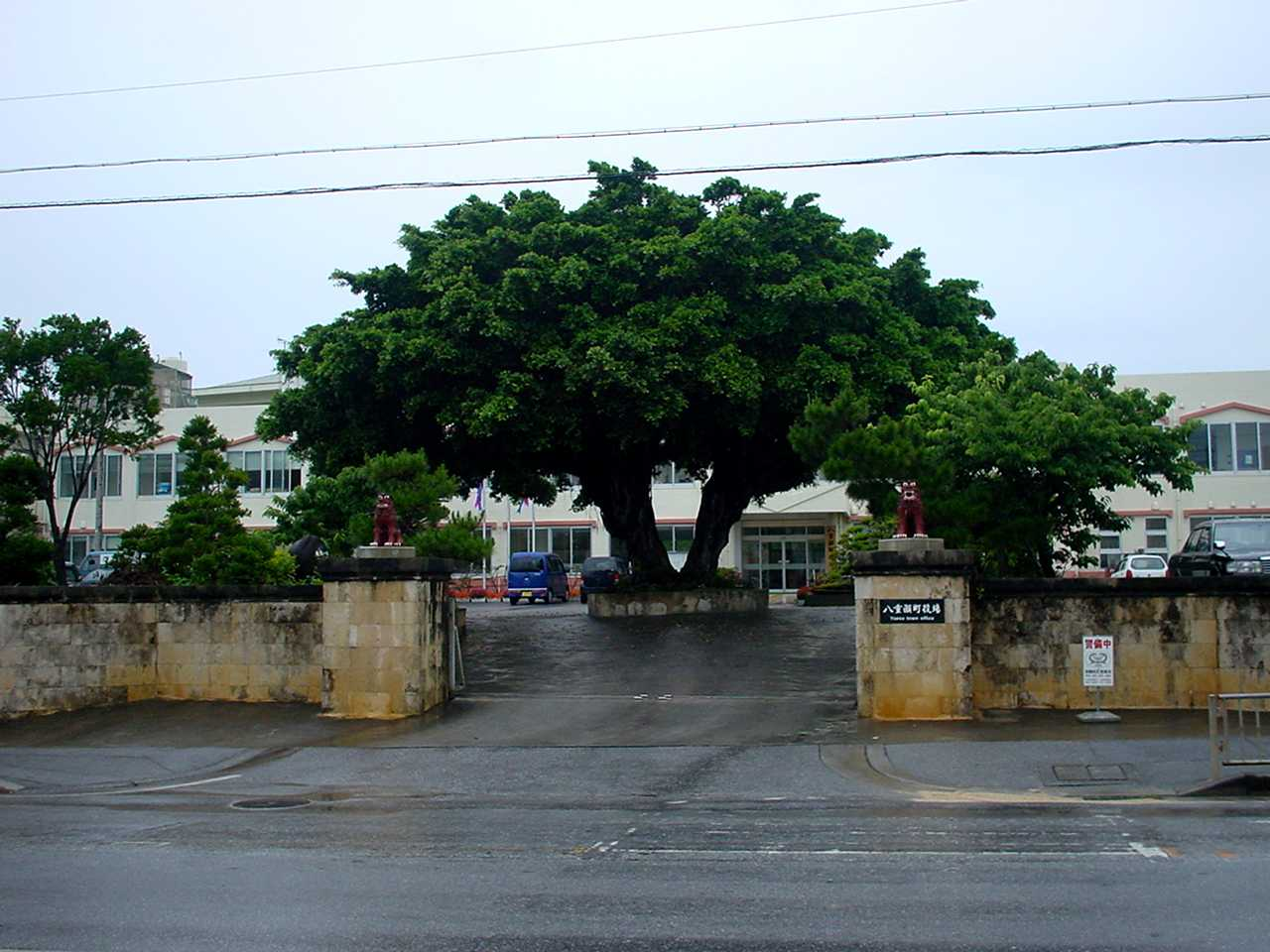 The building of Yaese-cho office, Okinawa, Japan.